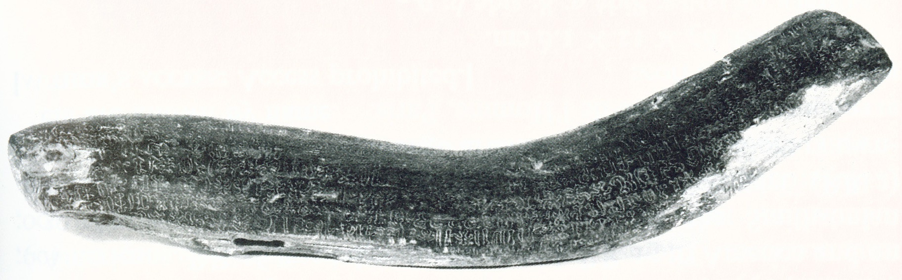 One of 26 rongorongo tablets that may be authentic.